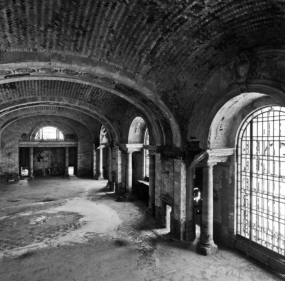 Interior Mezzanine of Michigan Central Station, Detroit.